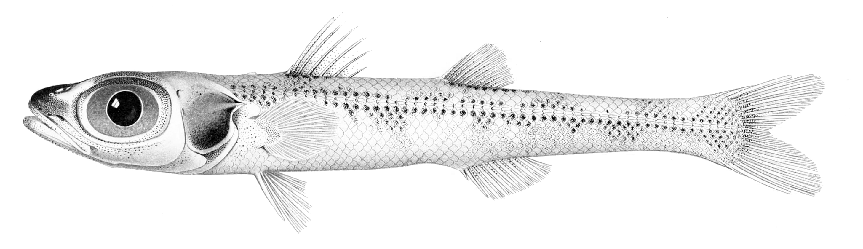 Epigonus atherinoides